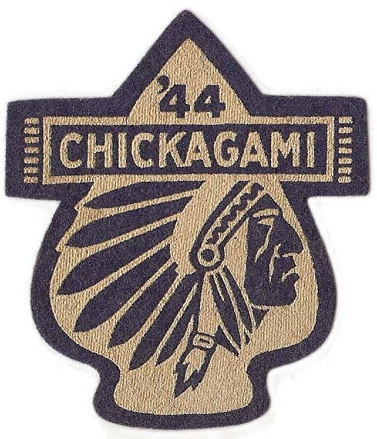 1942 Camp Chickagami patch